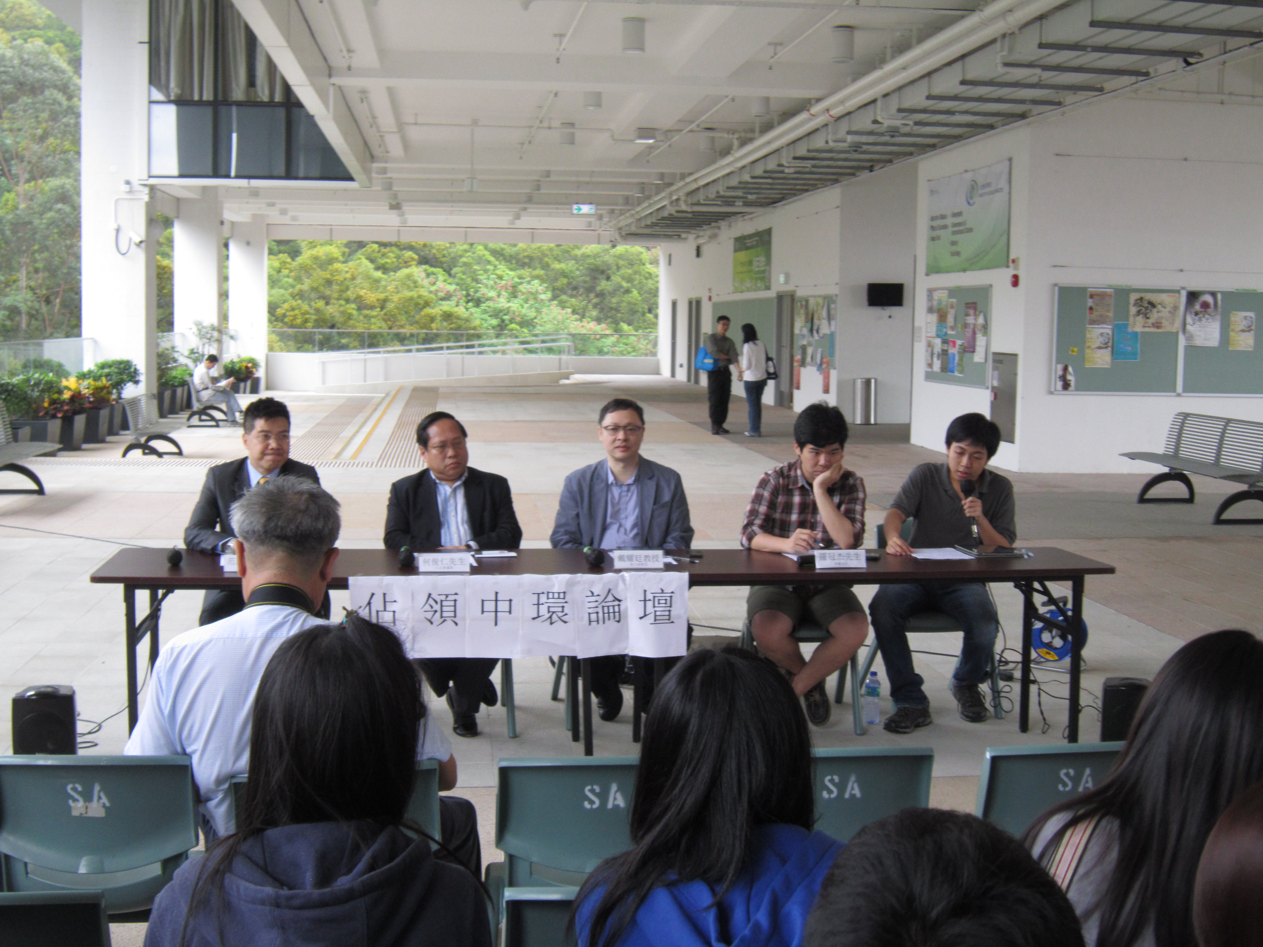 Occupy Central forum in HKBU Location: Podium, Level 3, Academic and Administration Building, Baptist University Road Campus [1]